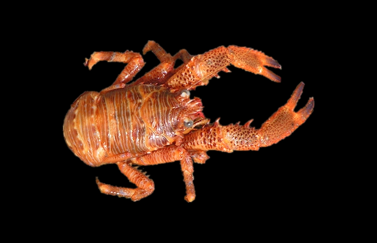 Galathea squamifera from german northsea .